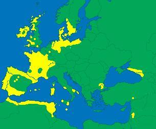 Map of megalith areas in Europe. Megalith areas are marked yellow.